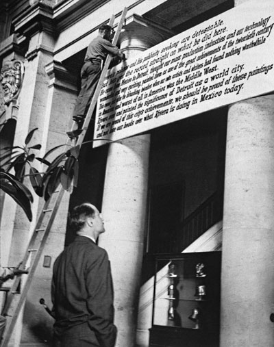 Museum Director overseeing installation of a sign defending the artistic merits of Diego Rivera's murals in the face of anti-communist backlash. The sign reads: "Rivera's politics and his publicity seeking are detestable. But let's get the record straight on what he did here. He came from Mexico to Detroit, thought our mass production industries and our technology wonderful and very exciting, painted them as one of the great achievements of the twentieth century. This came after the debunking twenties when our artists and writers found nothing worthwhile in America and worst of all in America was the Middle West. Rivera saw and painted the significance of Detroit as a world city. If we are proud of this city's achievements, we should be proud of these paintings and not lose our heads over what Rivera is doing in Mexico today." (as quoted in Making the Modern: Industry, Art, and Design in America (1994), by Terry Smith.)